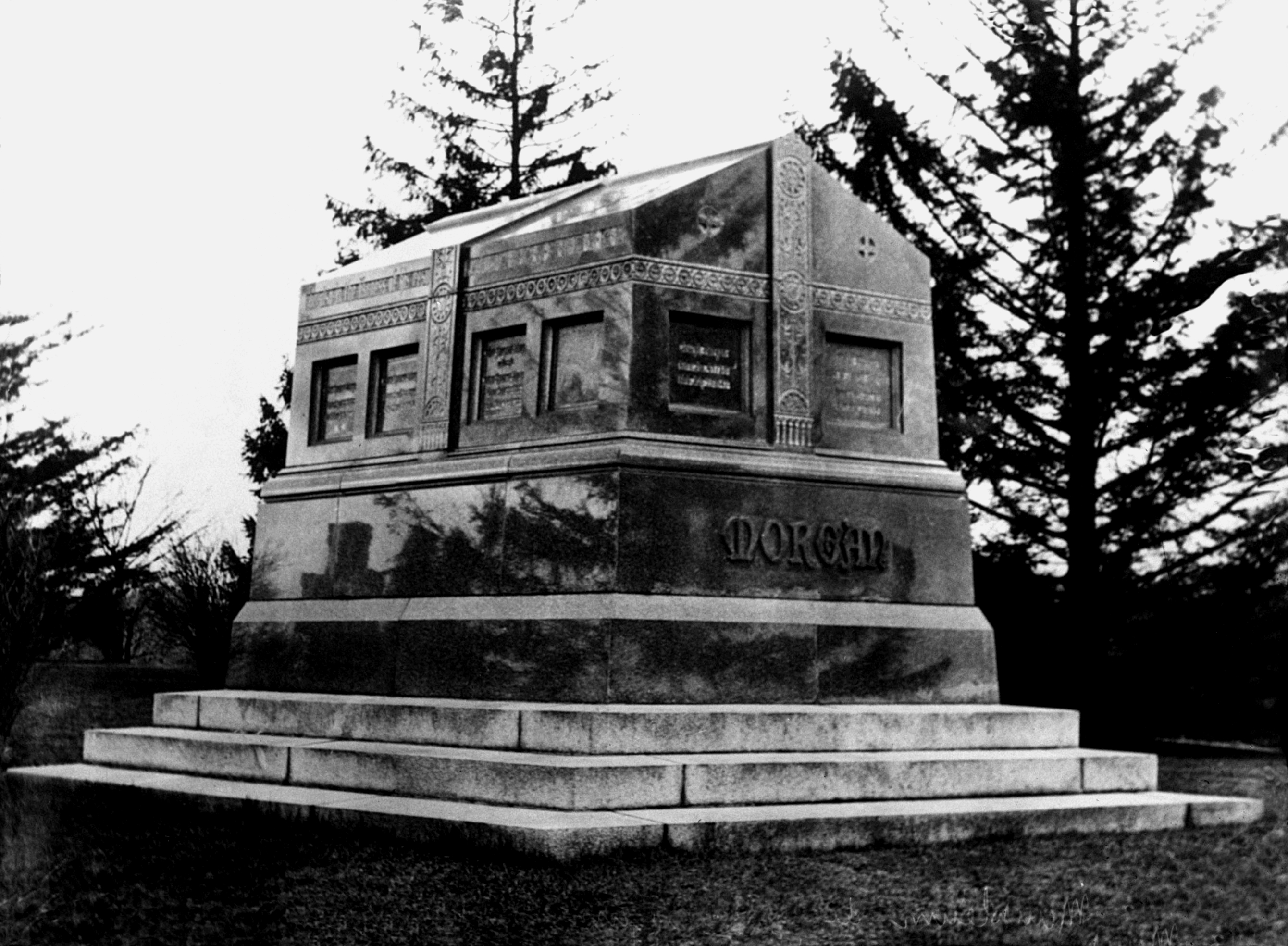 The grave of J.P.Morgan (1837 - 1913), american financier, Cedar Hill Cemetery (Hartford, Connecticut), U.S.A.